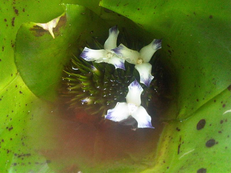 Neoregelia kautskyi in Kew Gardens, England.